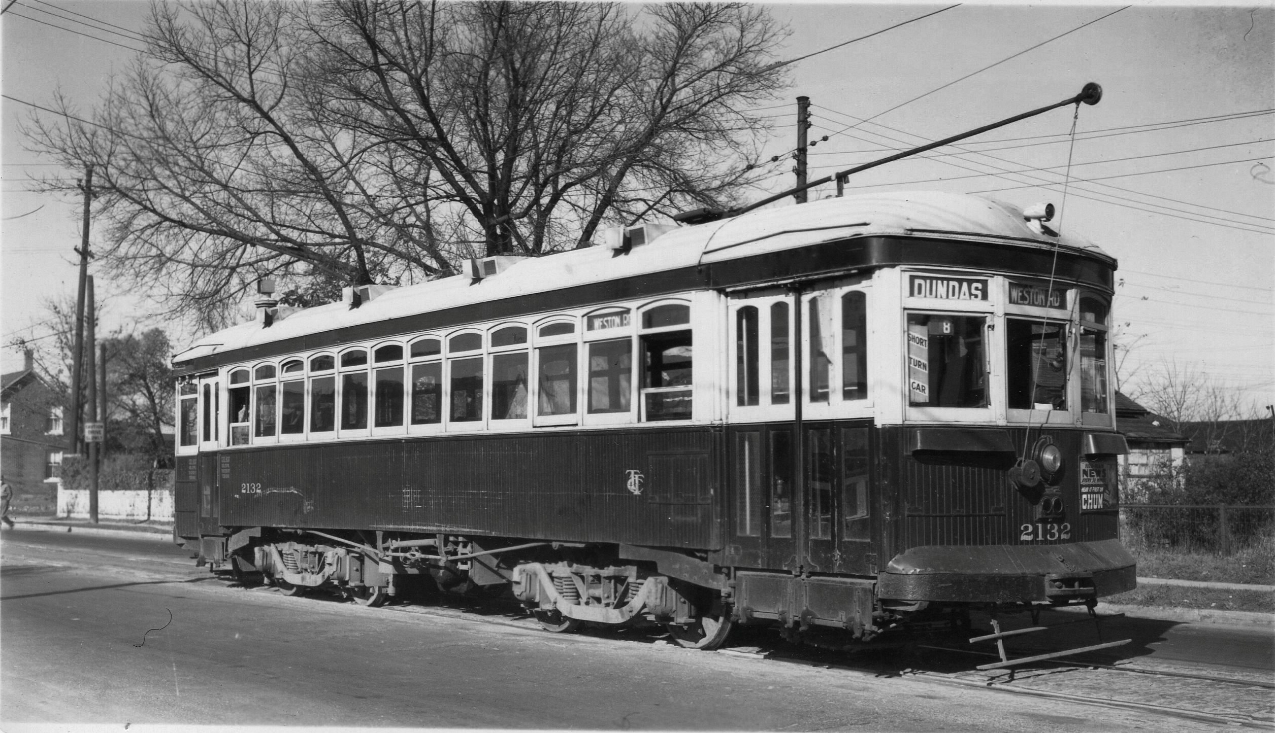 Weston Road streetcar. Note: this is a double-ended car. Original caption: “TTC Niles car #2132 operates on the WESTON car route through Mount Dennis on November 1, 1947. Photo donated from the collection of Martin Proctor.” This image is available from the City of Toronto Archives, listed under the archival citation Fonds 16, Series 71, Item 3524. This tag does not indicate the copyright status of the attached work. A normal copyright tag is still required. See Commons:Licensing for more information.